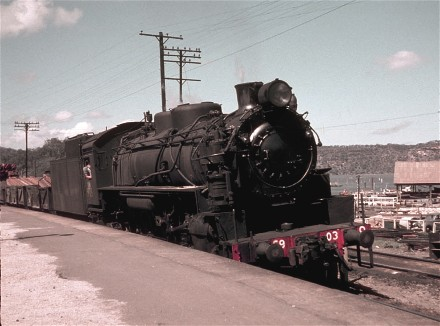 Locomotive 5903 stands at Hawkesbury River station with a Sydney bound goods train